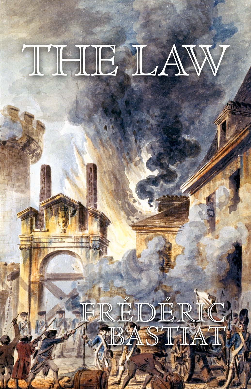 Cover of the 2007 edition of The Law by Frédéric Bastiat